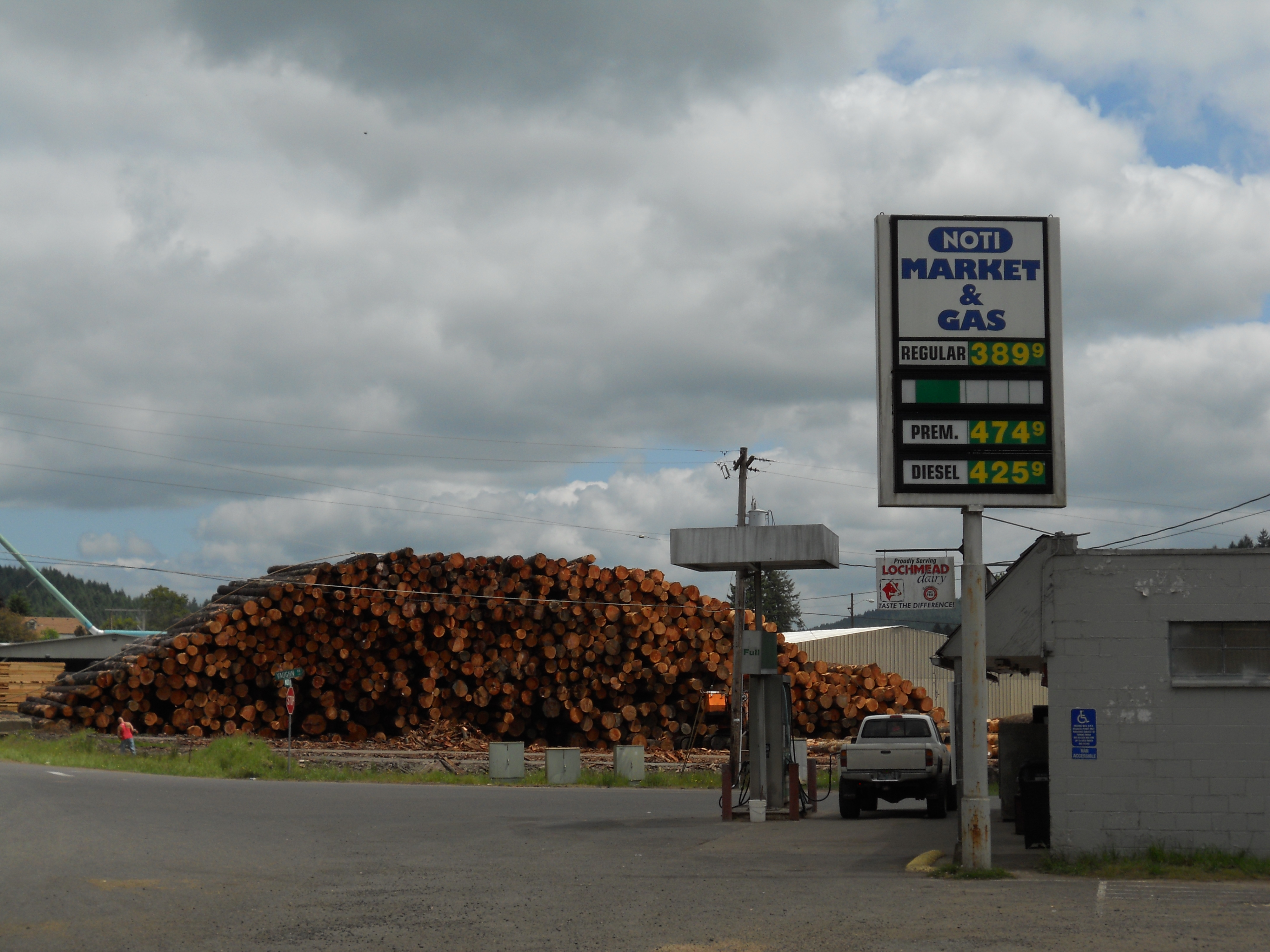 Noti, an unincorporated community in Lane County, Oregon